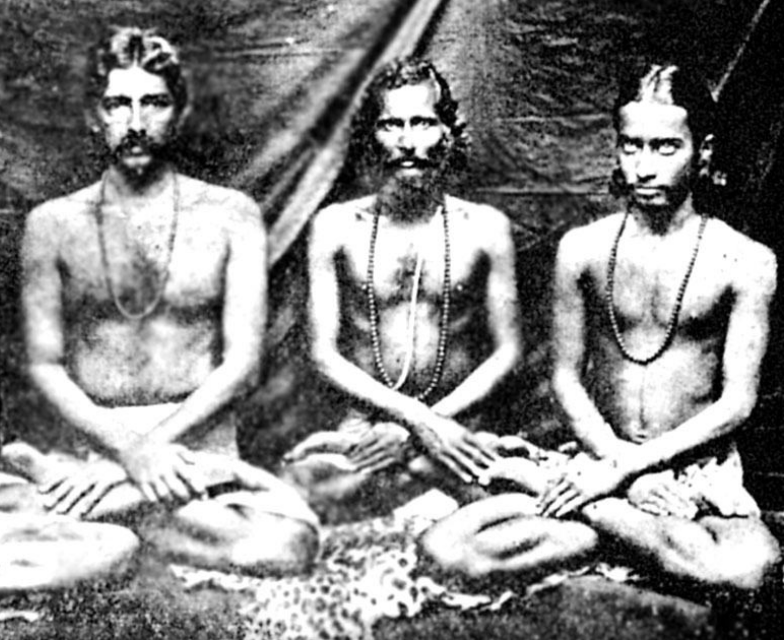 Pulin Bihari Das, Shastri Mahasaya (Kebalananda), Yogananda at 1908 Sadhana Mandir. Paramhansa Yogananda Photo - Age 16 with Monks